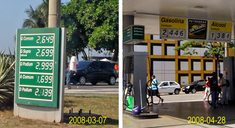 Ethanol and gasoline prices on Rio de Janeiro (left) and São Paulo (right) on the datas shown, 2008